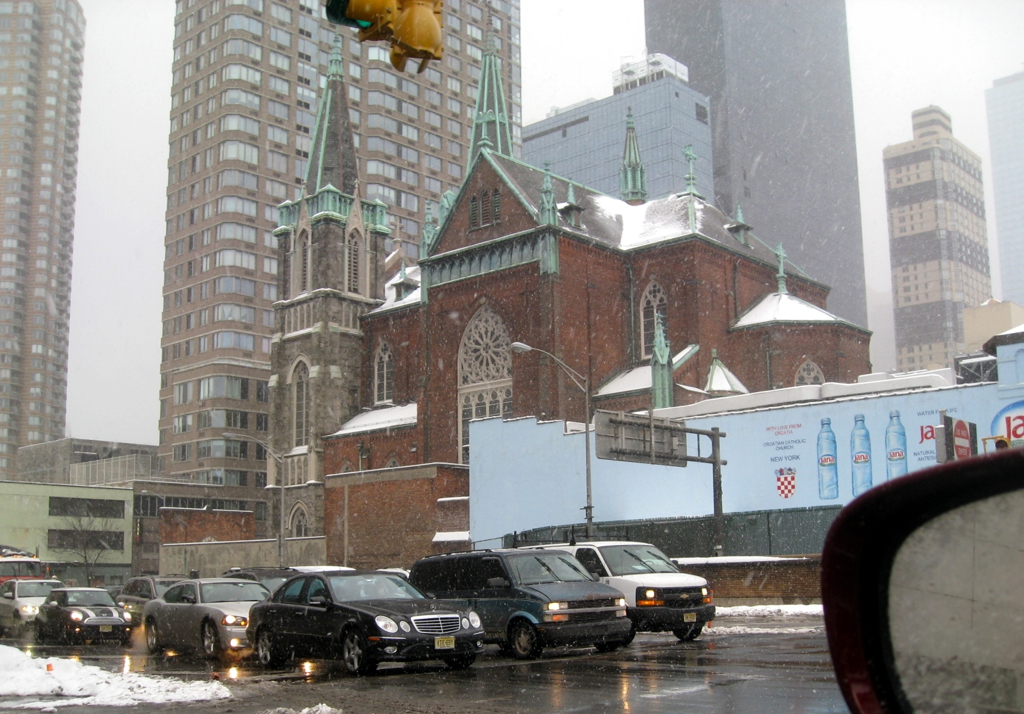 Looking east across 40th Street at the Church of Saints Cyril & Methodius and St. Raphael is a Roman Catholic parish church in the Roman Catholic Archdiocese of New York, located at 502 West 41st Street, Manhattan, New York City. It was established in 1974 from the parish merger of St. Raphael's Roman Catholic Church and SS. Cyril & Methodius and is staffed by the Franciscan Friars.